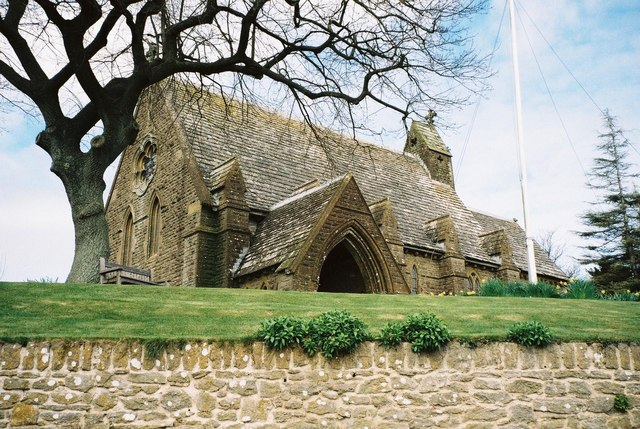 Bothenhampton: New church of the Holy Trinity Replacement for the old church.